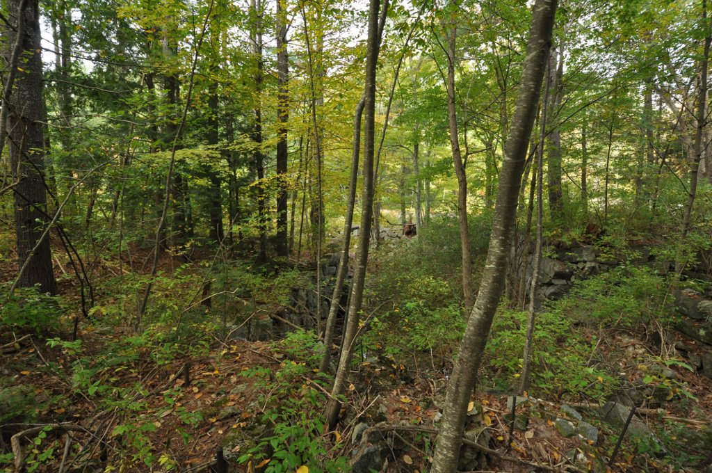 Wiswall Falls Mills Site, Durham, New Hampshire. Remnants of foundation are visible through the growth.